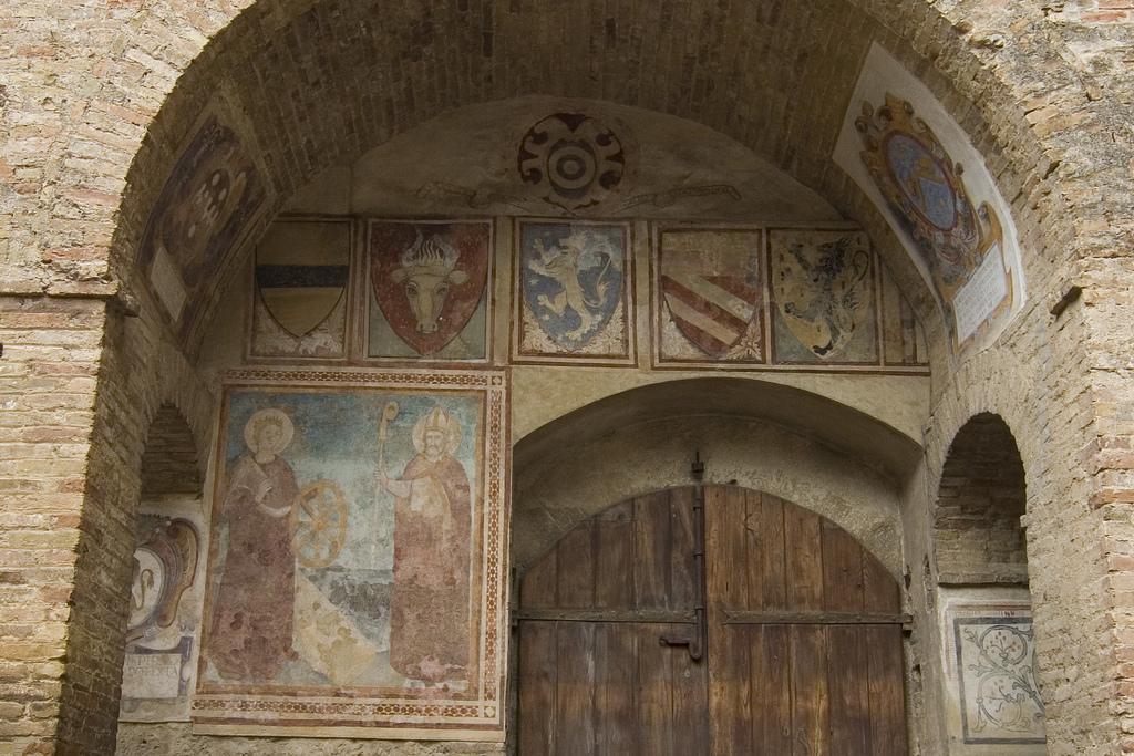 see above